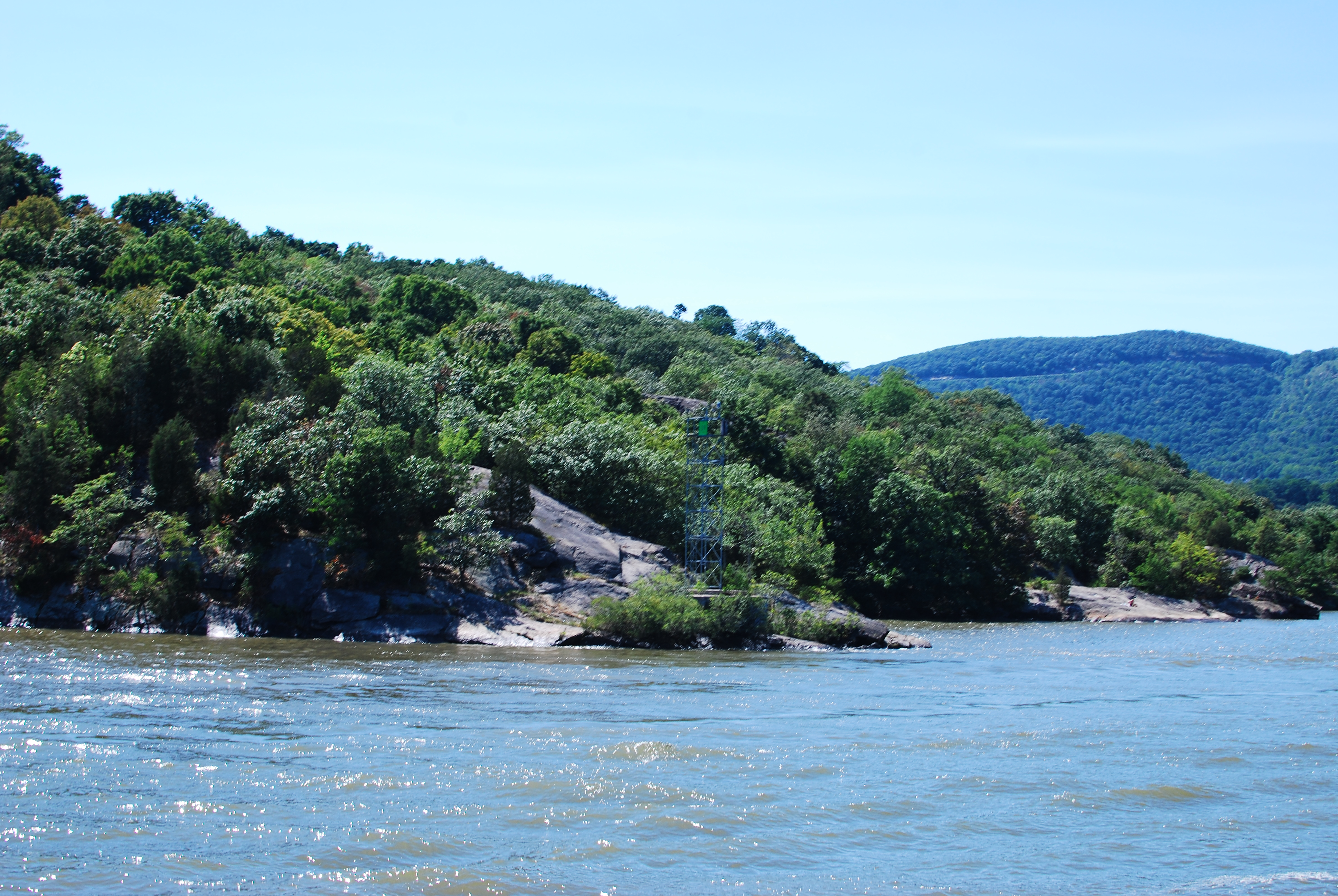 Light #39 on Gee's Point at the sight of the old West Point (NY) Lighthouse, West Point, NY